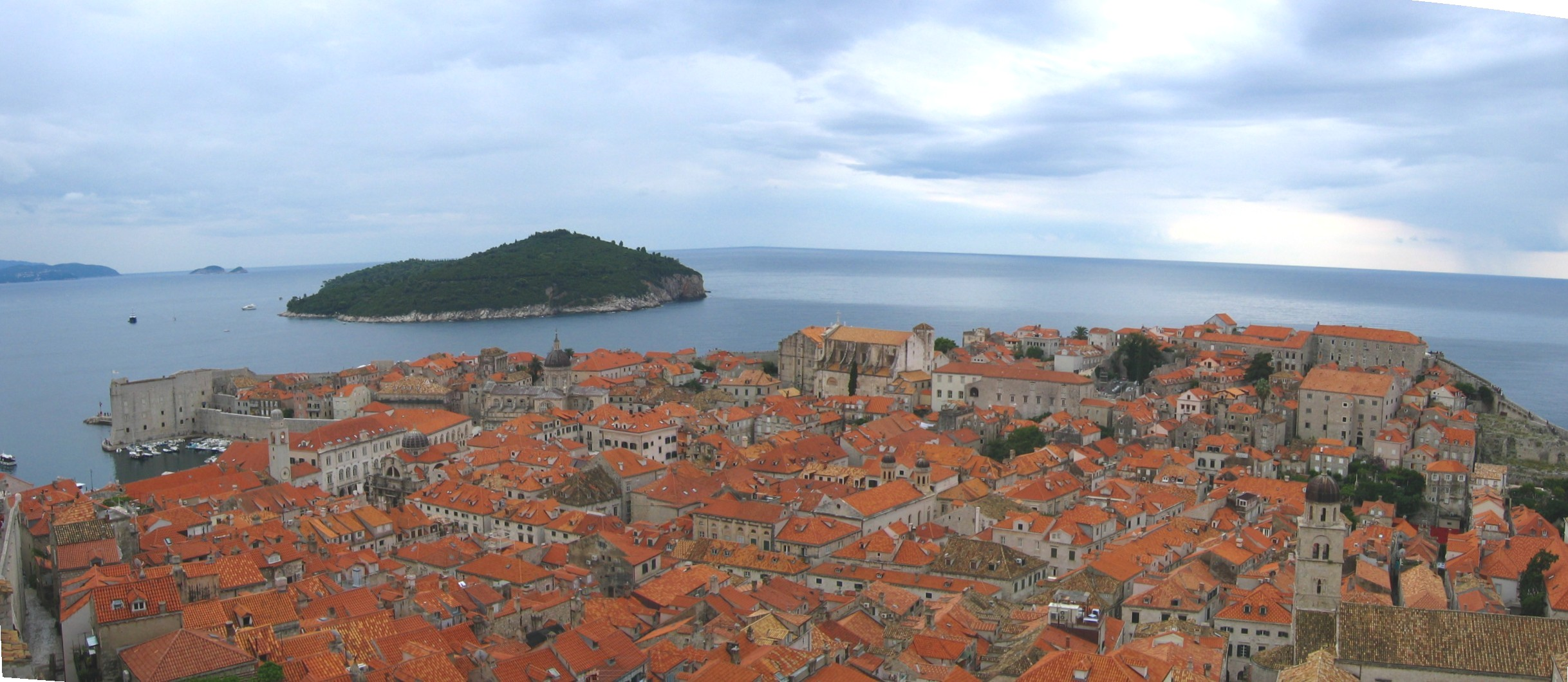 Dubrovnik, view on Old town from Minčeta tower, Dalmatia, Croatia